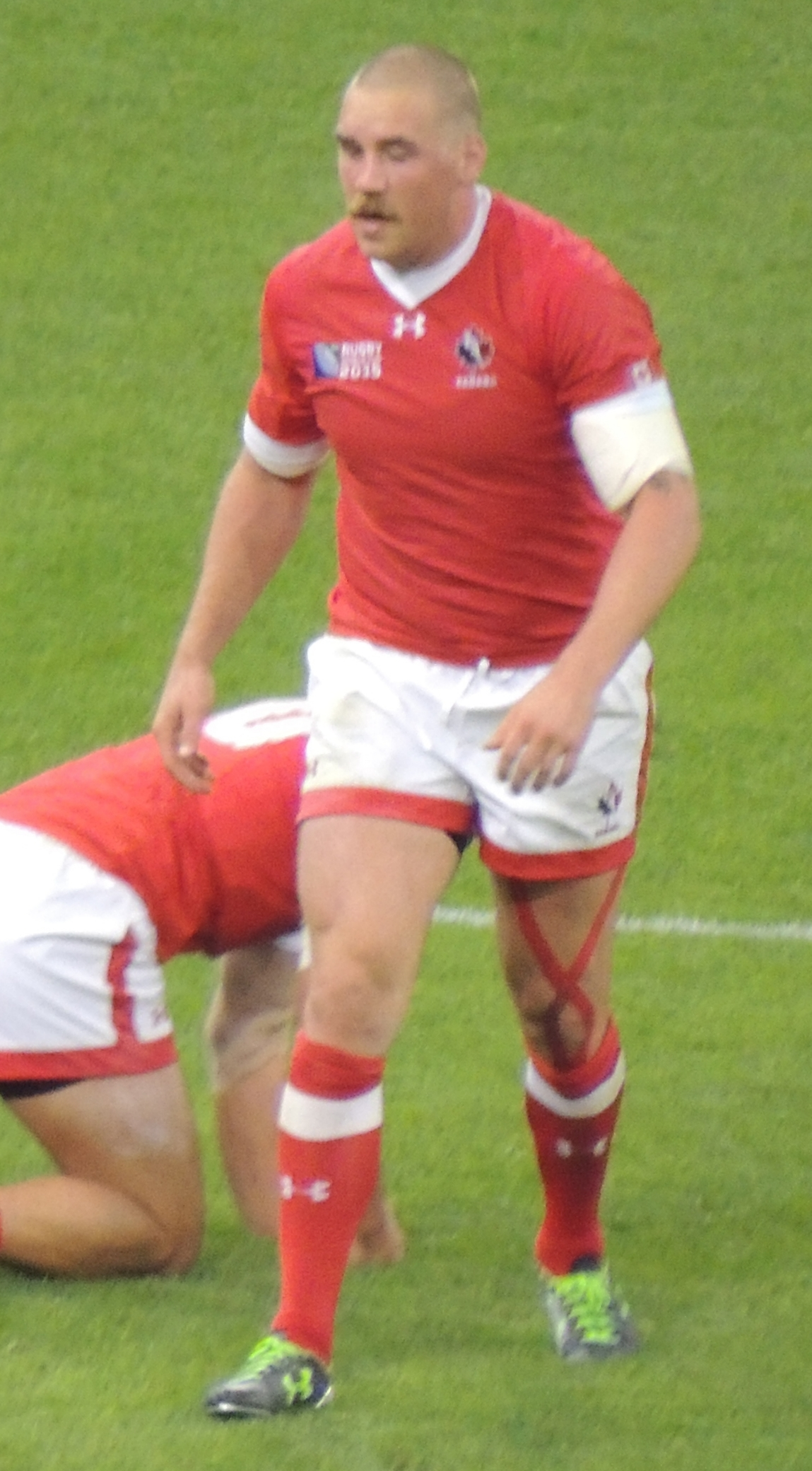 Canadian rugby union player Nick Blevins playing in 2015 Rugby World Cup game Ireland vs Canada at Millennium Stadium in Cardiff.